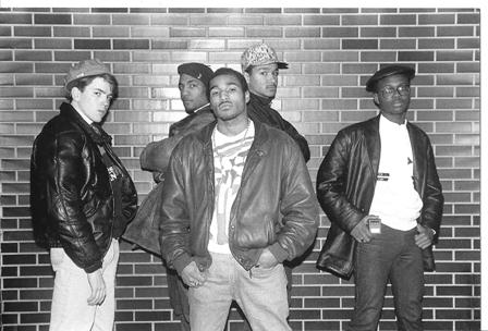 Get Loose Crew album photo shoot - MC Shadow (left), S-Blank (producer back left), MC B (center front), DJ Jel (back right), Mix-Master Len (right)